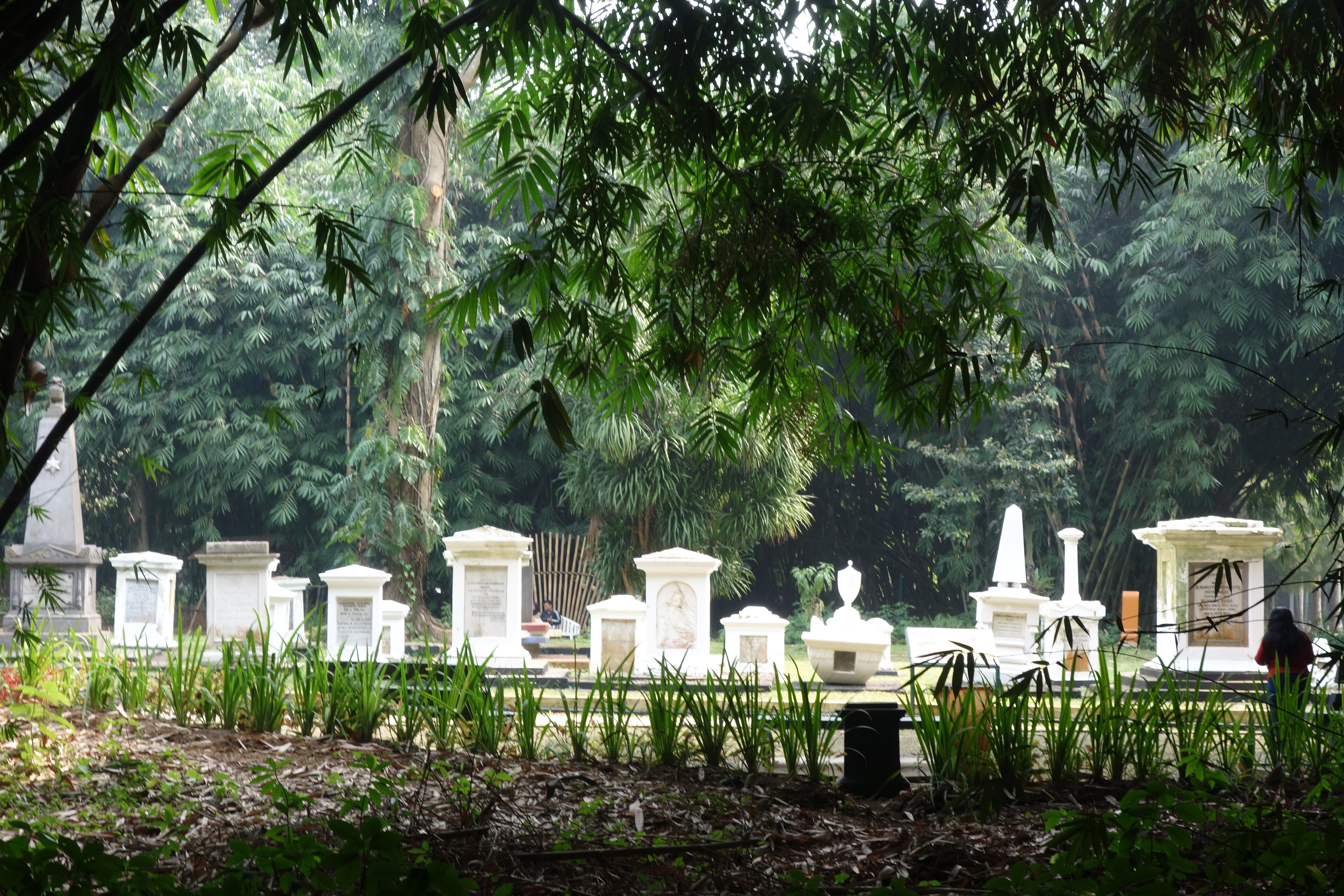 Old Dutch cemetery at Bogor Botanical Gardens (Java, Indonesia), 2018